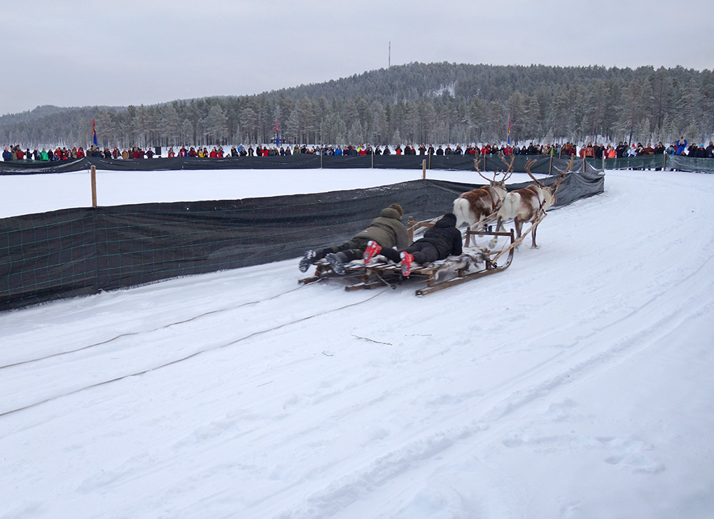 Reindeer race on lake Talvatis in Jokkmokk during the winter market of 2017.